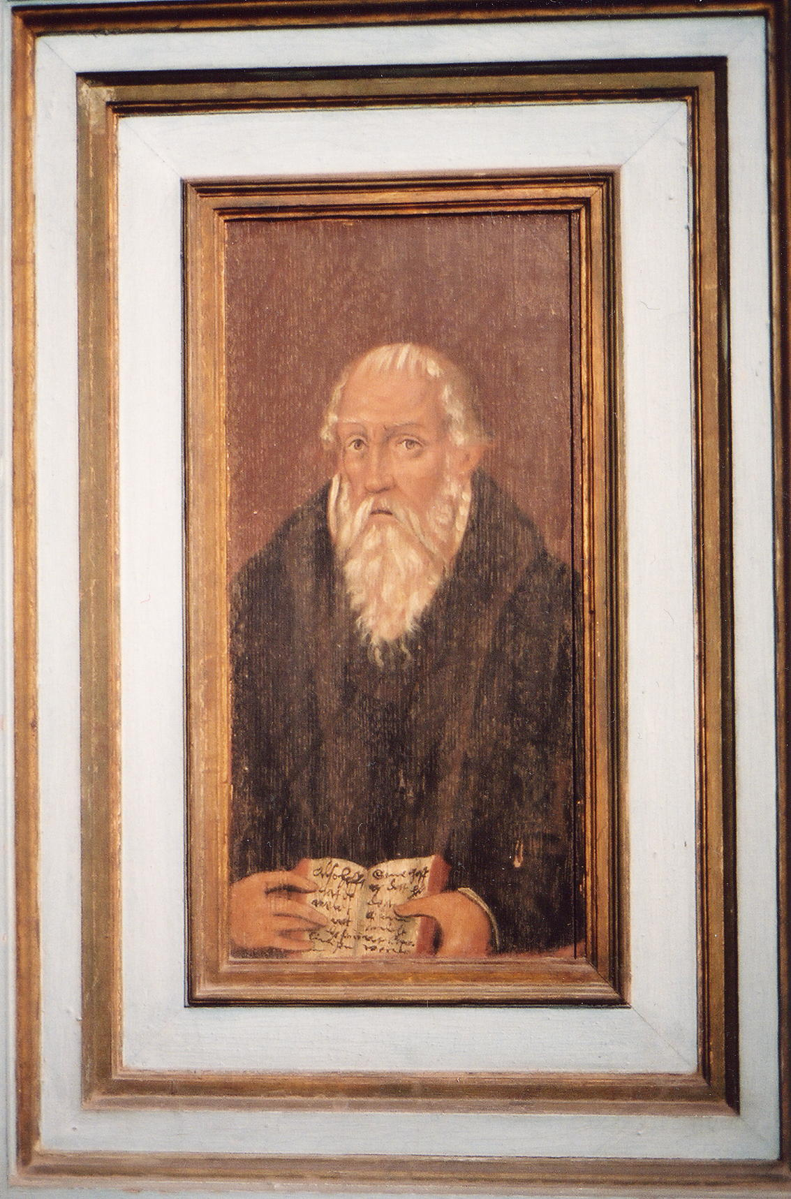 portrait Johannes Block